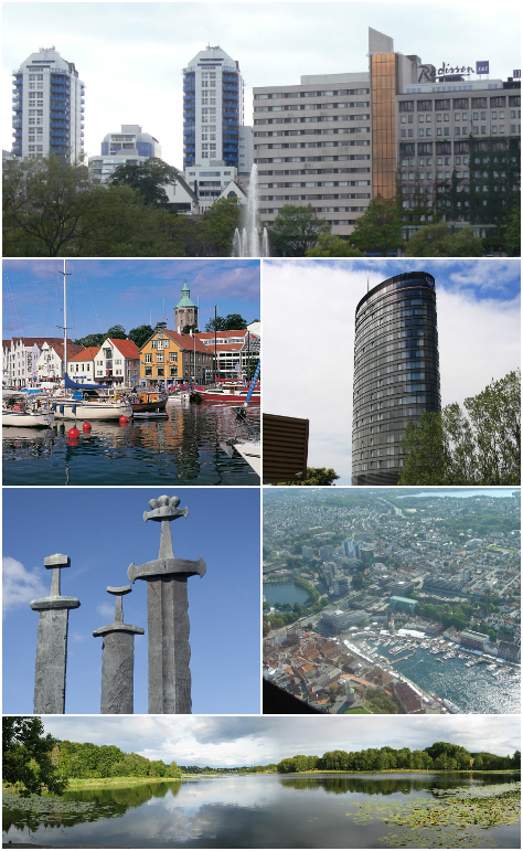 This collage is a mix of pictures that i found on Wikimedia Commons. They are all approved.